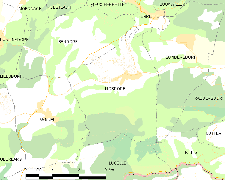 Map of French municipality